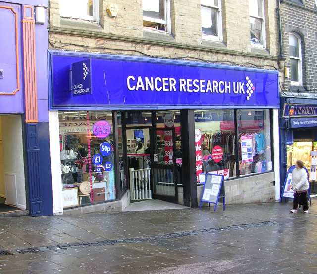 Cancer Research UK Shop - Ivegate